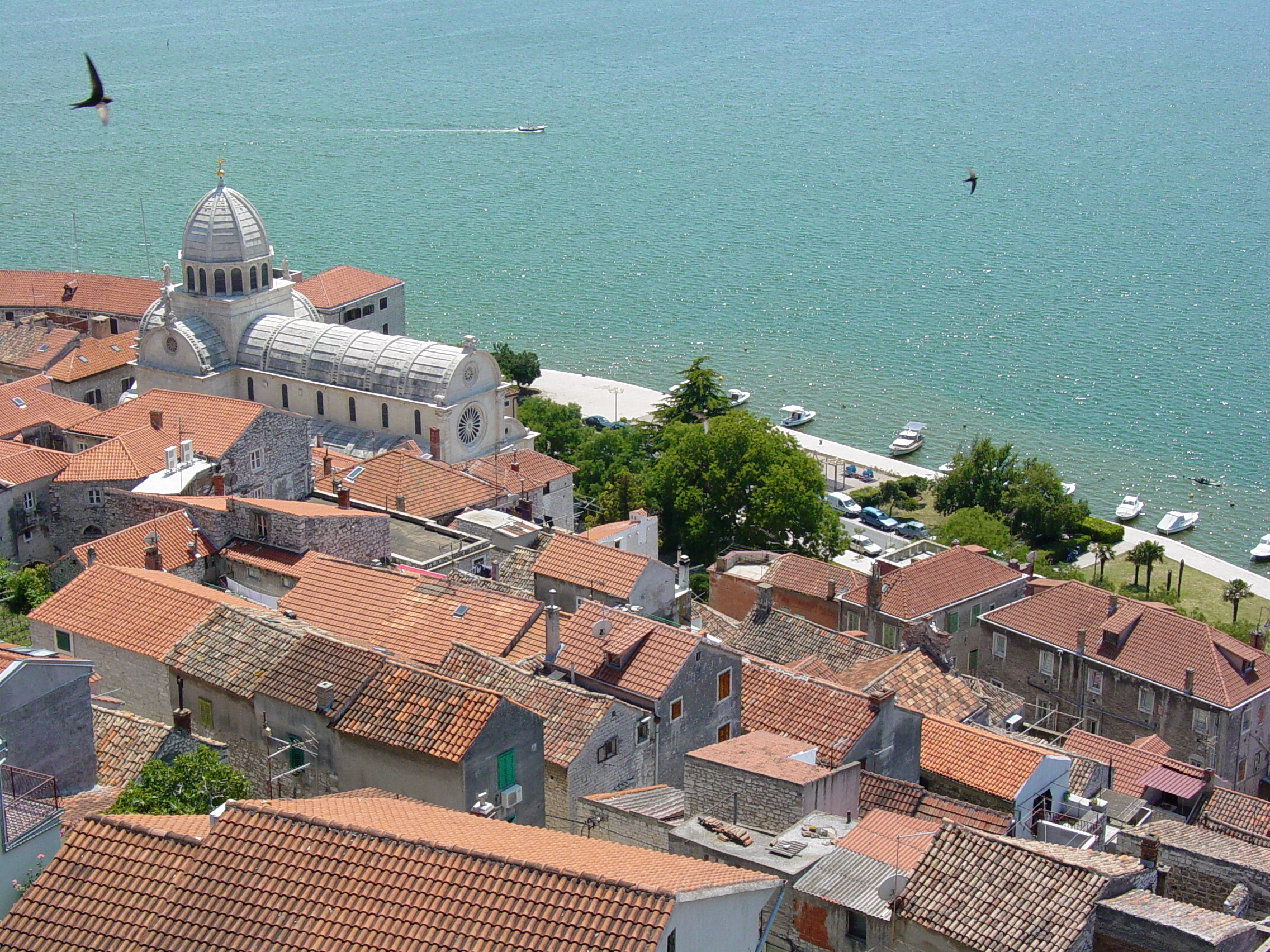 View over Old City from St. Ana fortress, Sibenik, Croatia. June 2004.